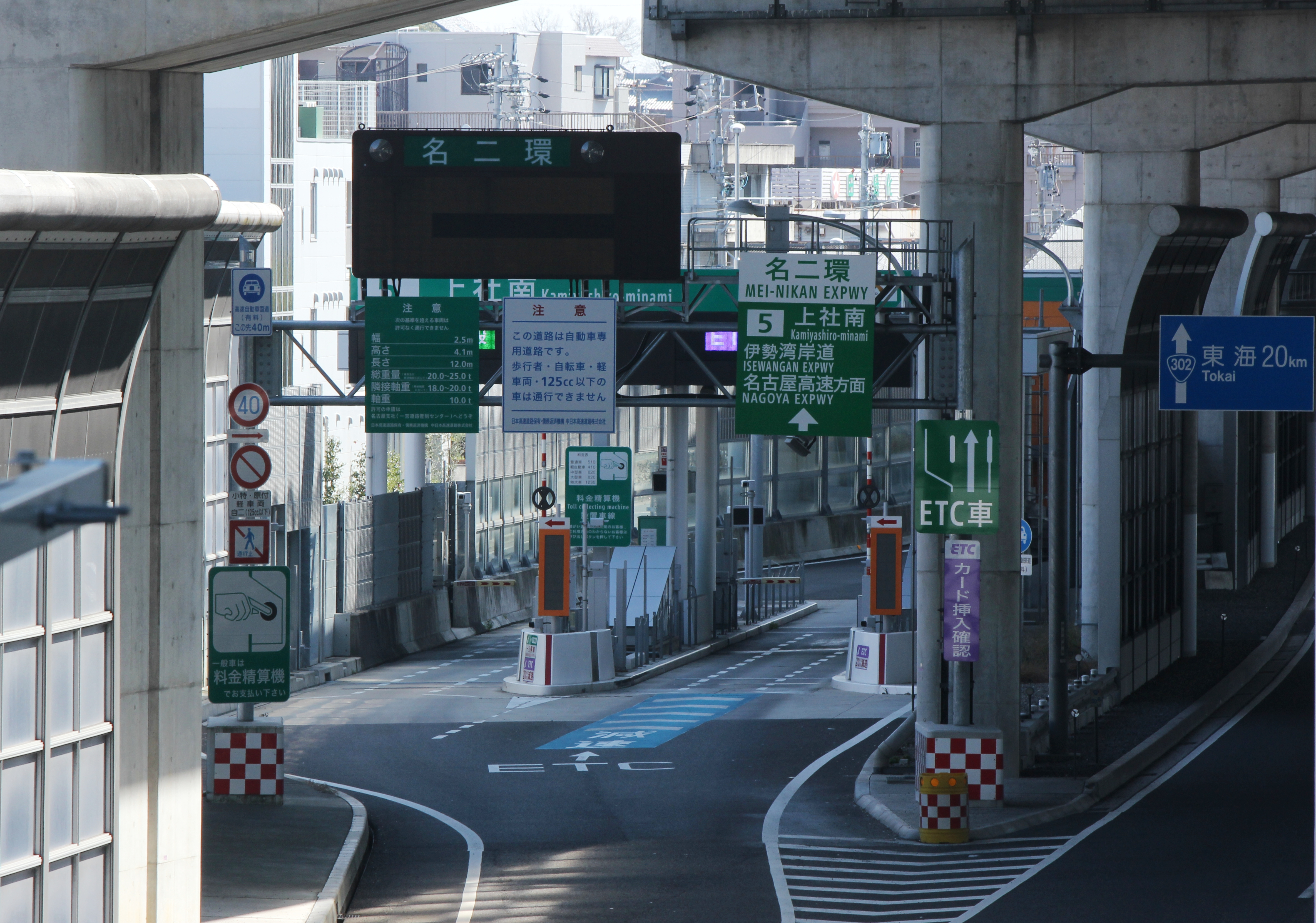 Entrance of Kamiyashiro-minami Interchange on the Nagoya-Daini-Kanjo (Meinikan) Expressway